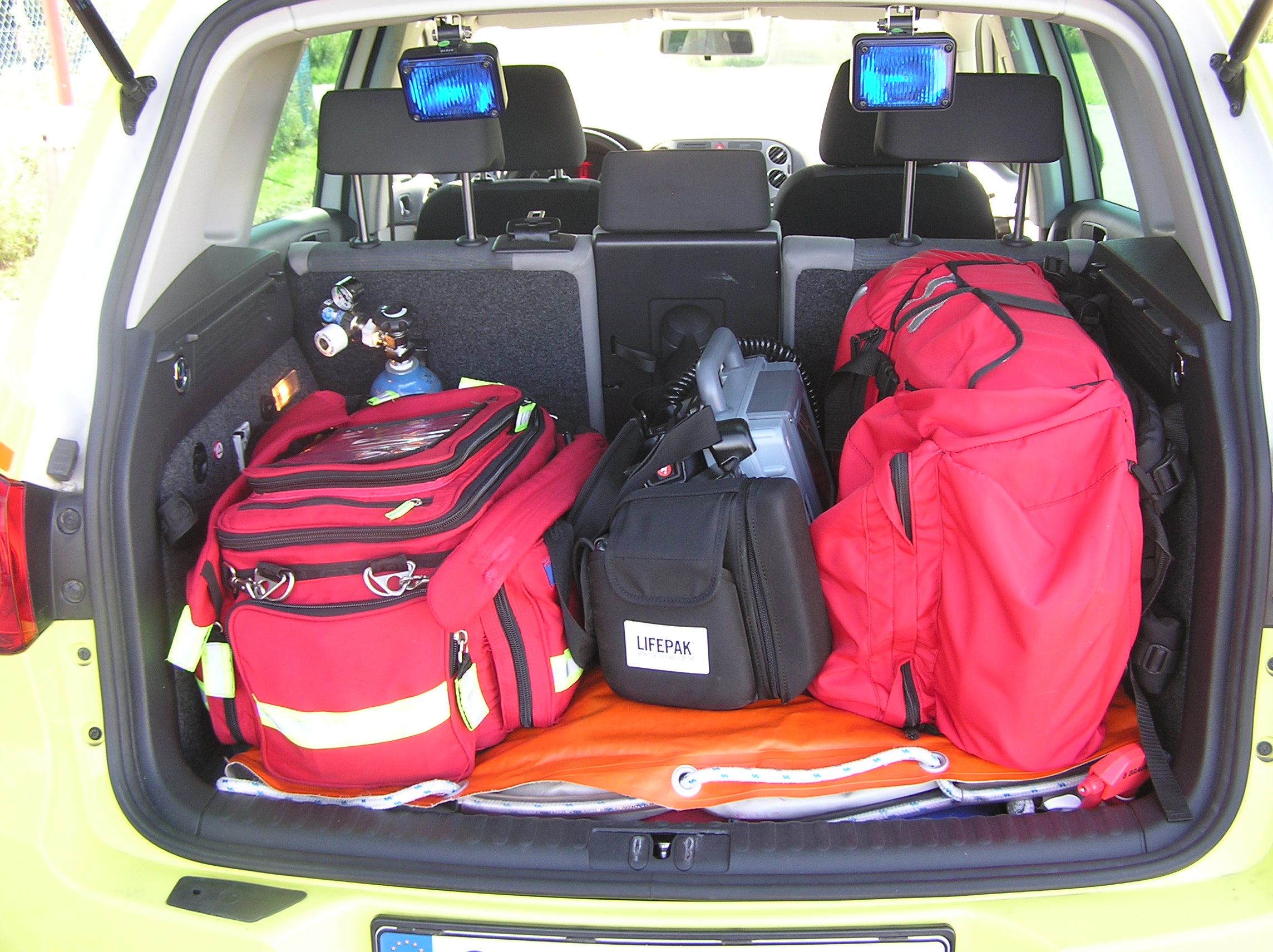 Ambulance equipment of the Rendez-Vous ambulance (rapid response unit vehicle) of the Emergency Medical services of the Olomouc Region, Czech Republic; Volkswagen Tiguan Česky: Vybavení sanitního vozidla pro výjezdy v režimu RV, Zdravotnická záchranná služba Olomouckého kraje, Volkswagen Tiguan